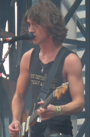 Lolla2009